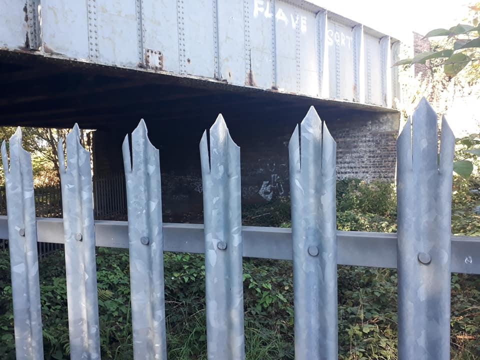 My own